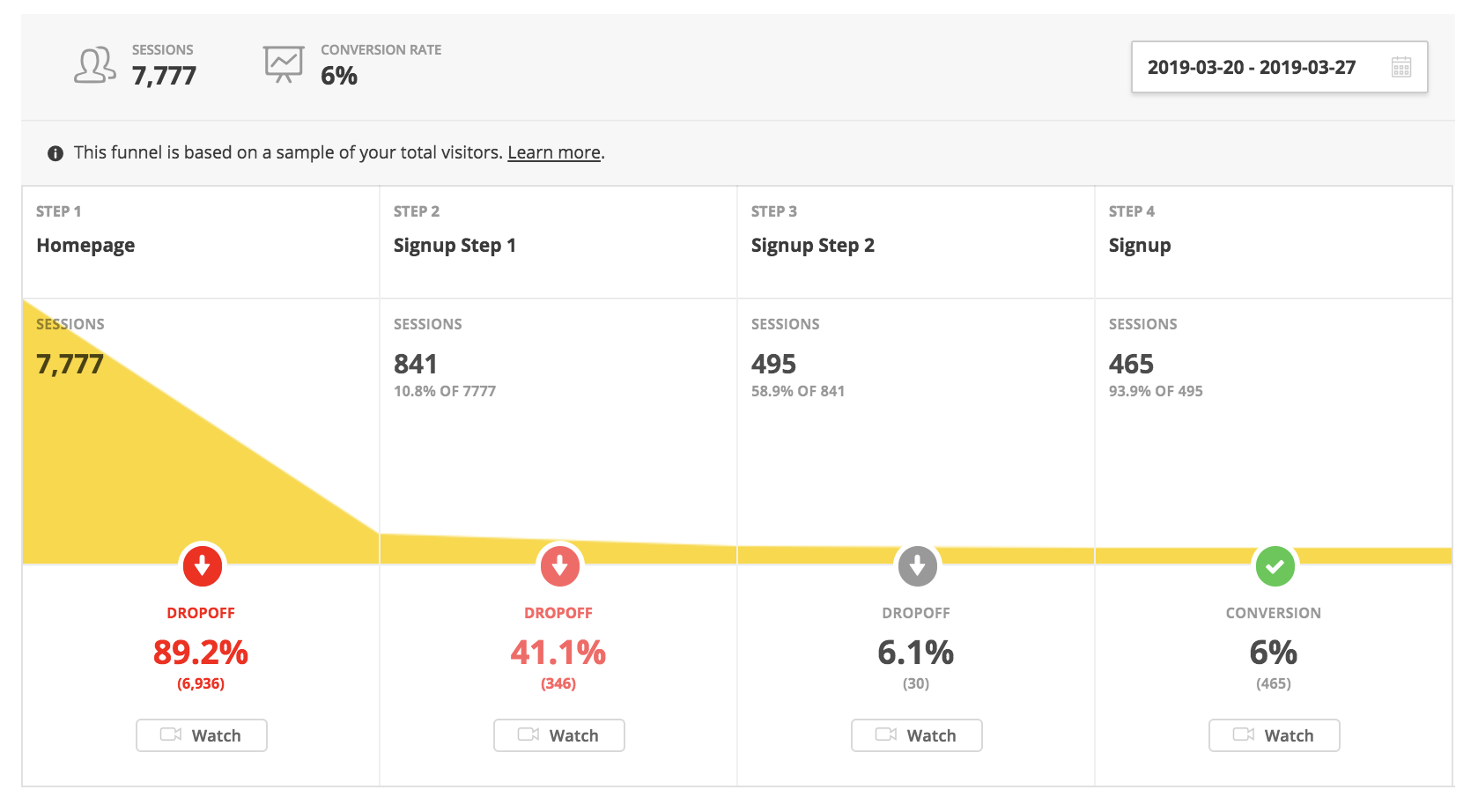 An example of funnel analysis using an analytics tool.